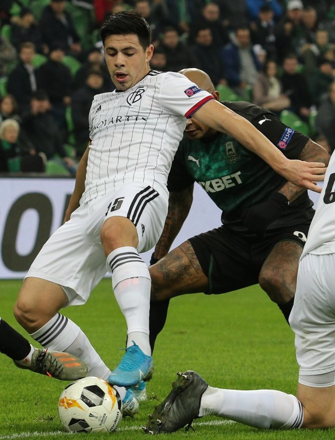 Blás Riveros with FC Basel in an Europa League game against FC Krasnodar.